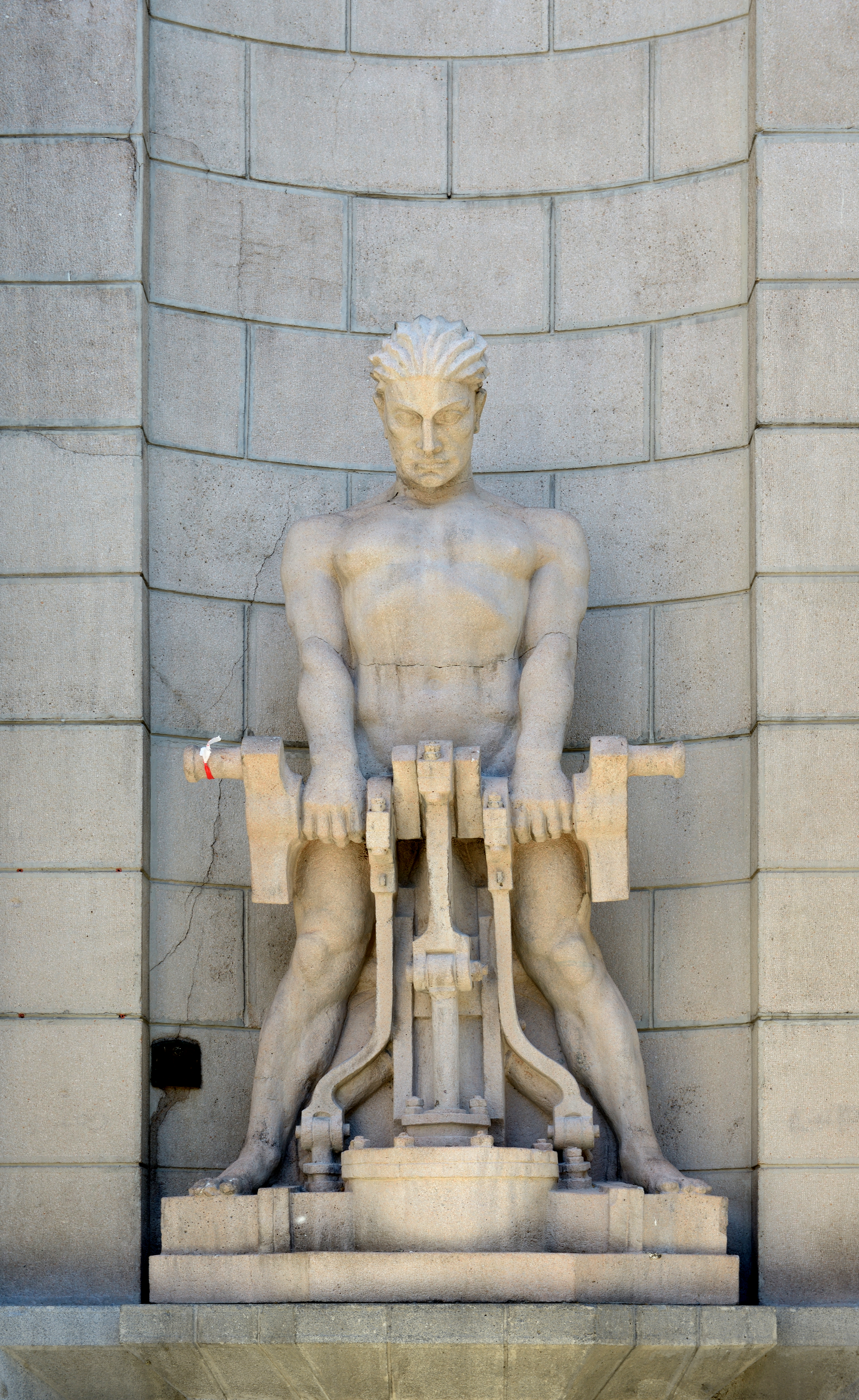 Allegory of steam, Franz Ehrenhöfer main train station in Bozen South Tyrol 1928